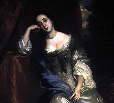 crop of Image:Barbara Villiers.jpg